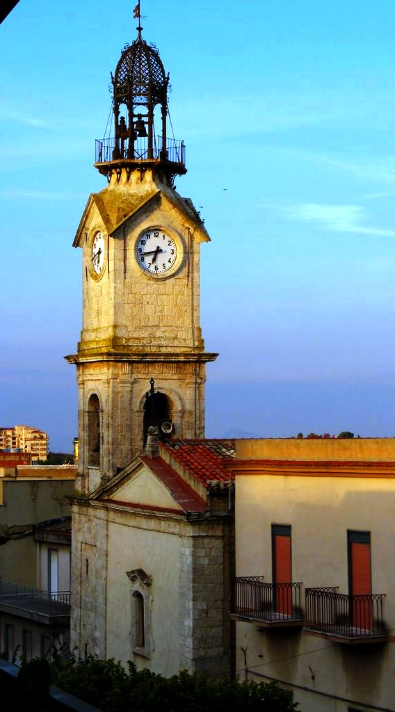 Chiesa del Rosario (città di San Cataldo, provincia Caltanissetta) (1).jpg